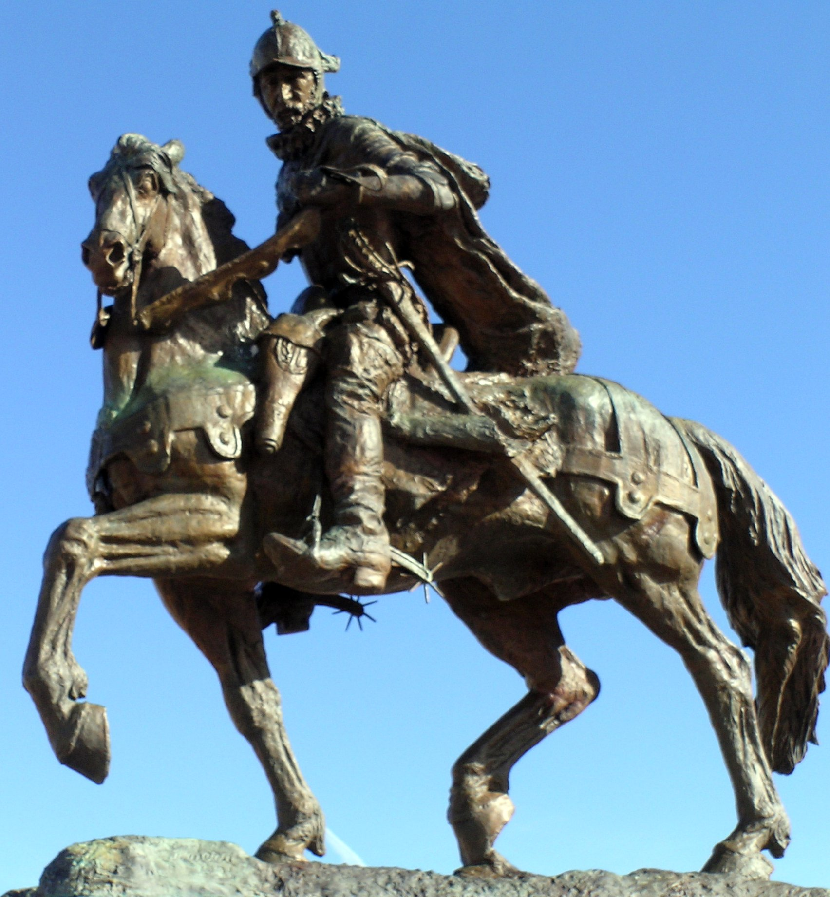 Onate Monument Center, Alcalde, NM Equestrian Statue of Juan De Onate